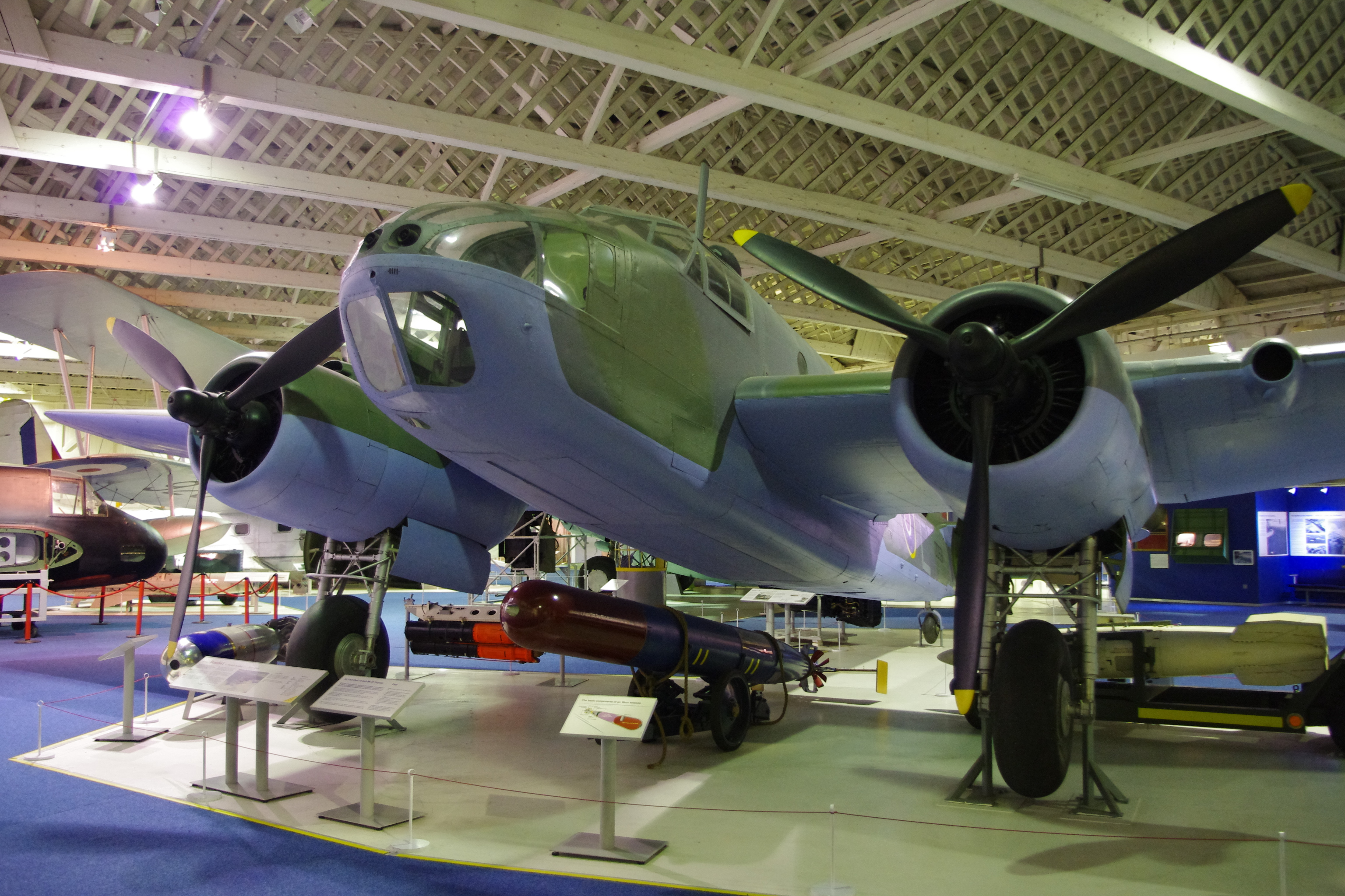 Taken at RAF Museum in Hendon on 19 Jul, 2010.